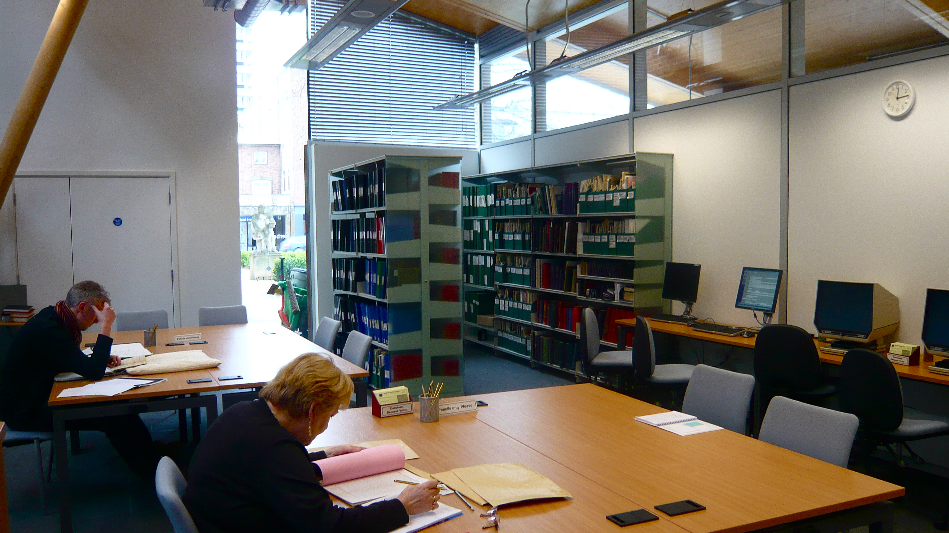 The Coventry History Centre, housed in the Herbert Art Gallery and Museum, Coventry.